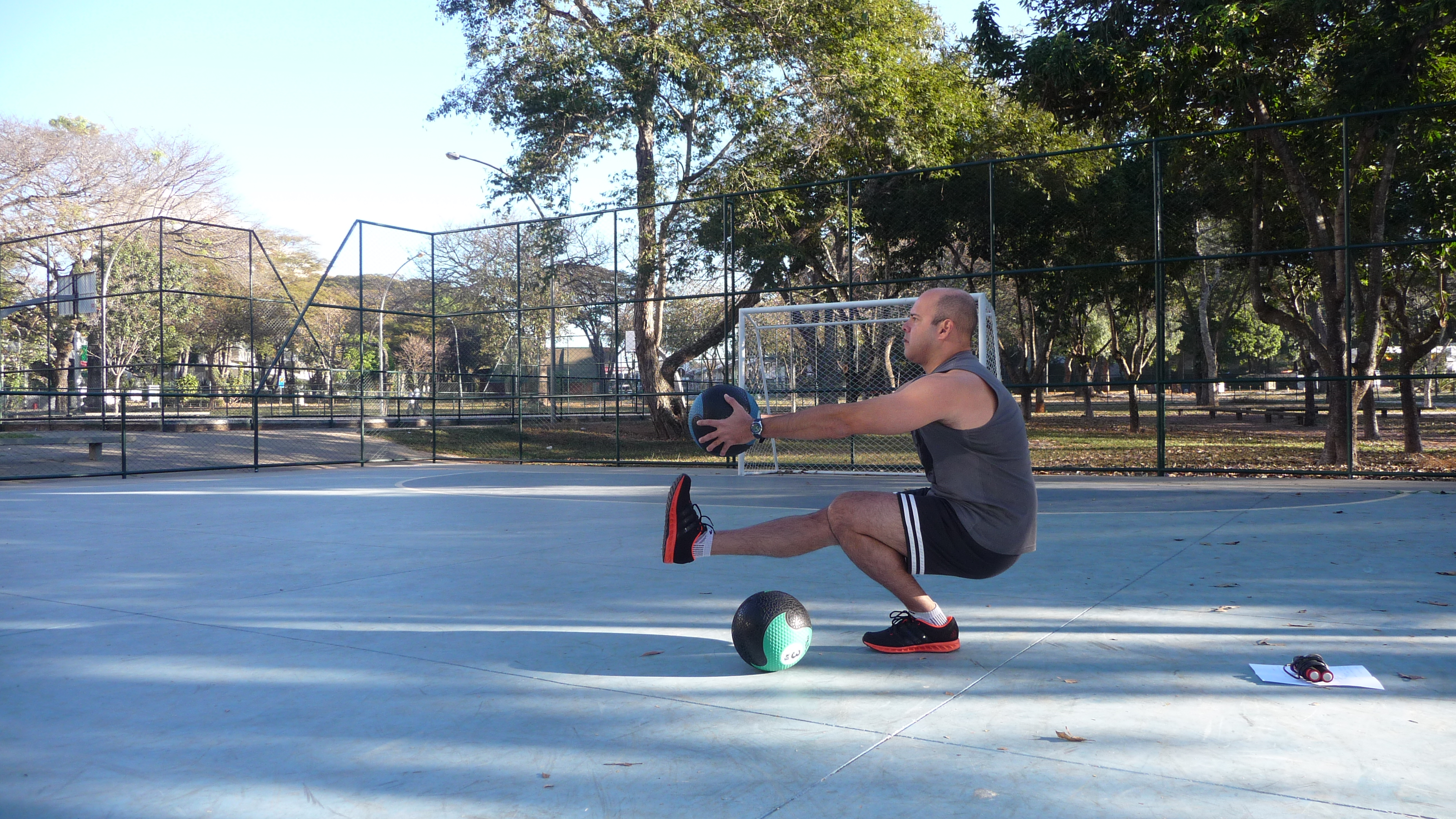 Pistol squat with medicine ball